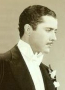 Don Alvarado in I Live for Love, 1935. Cropped from File:Dolores_Del_Rio-I_Live_For_Life-1.jpg